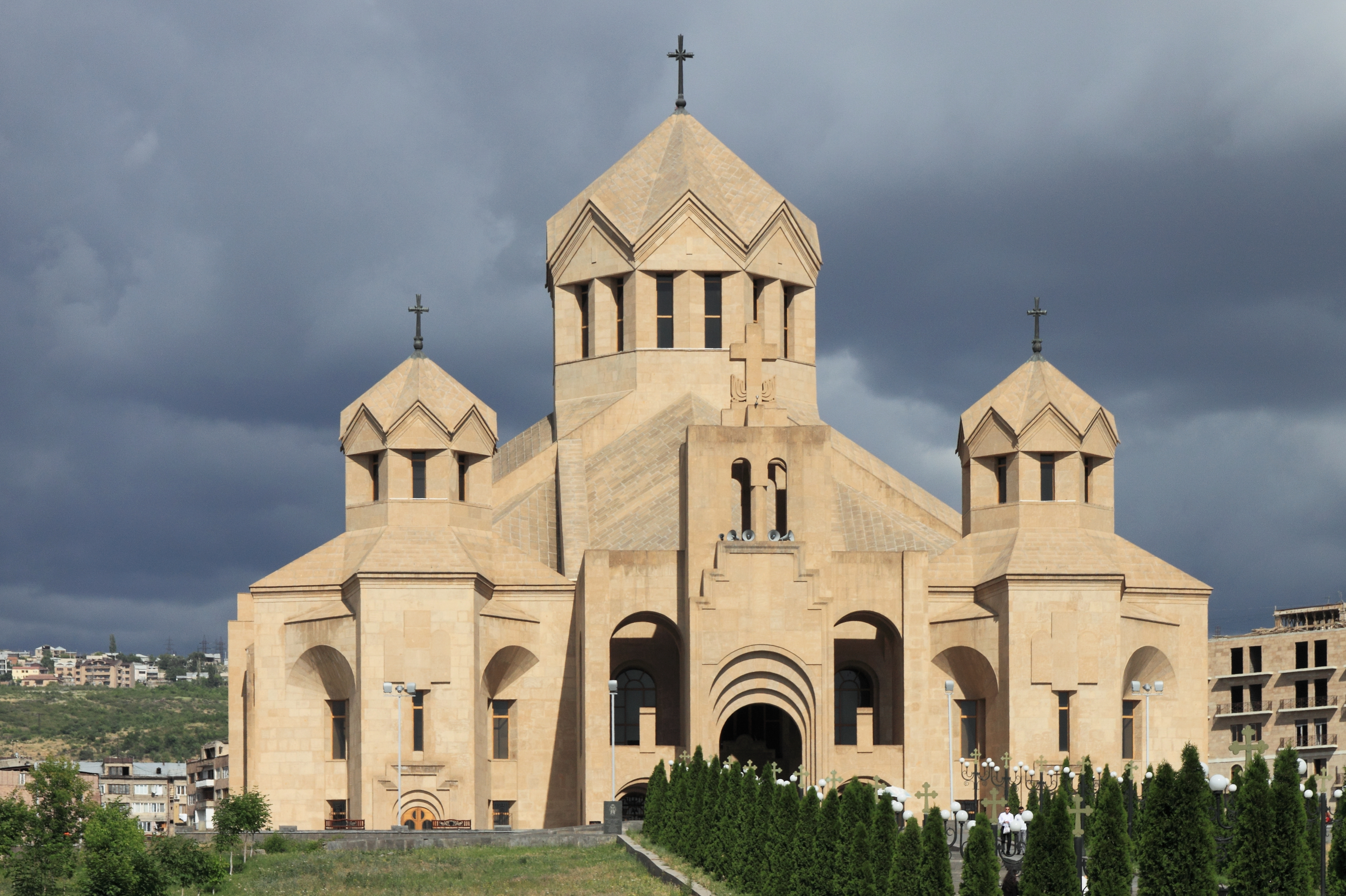 Saint Gregory the Illuminator Cathedral. Yerevan, Armenia.